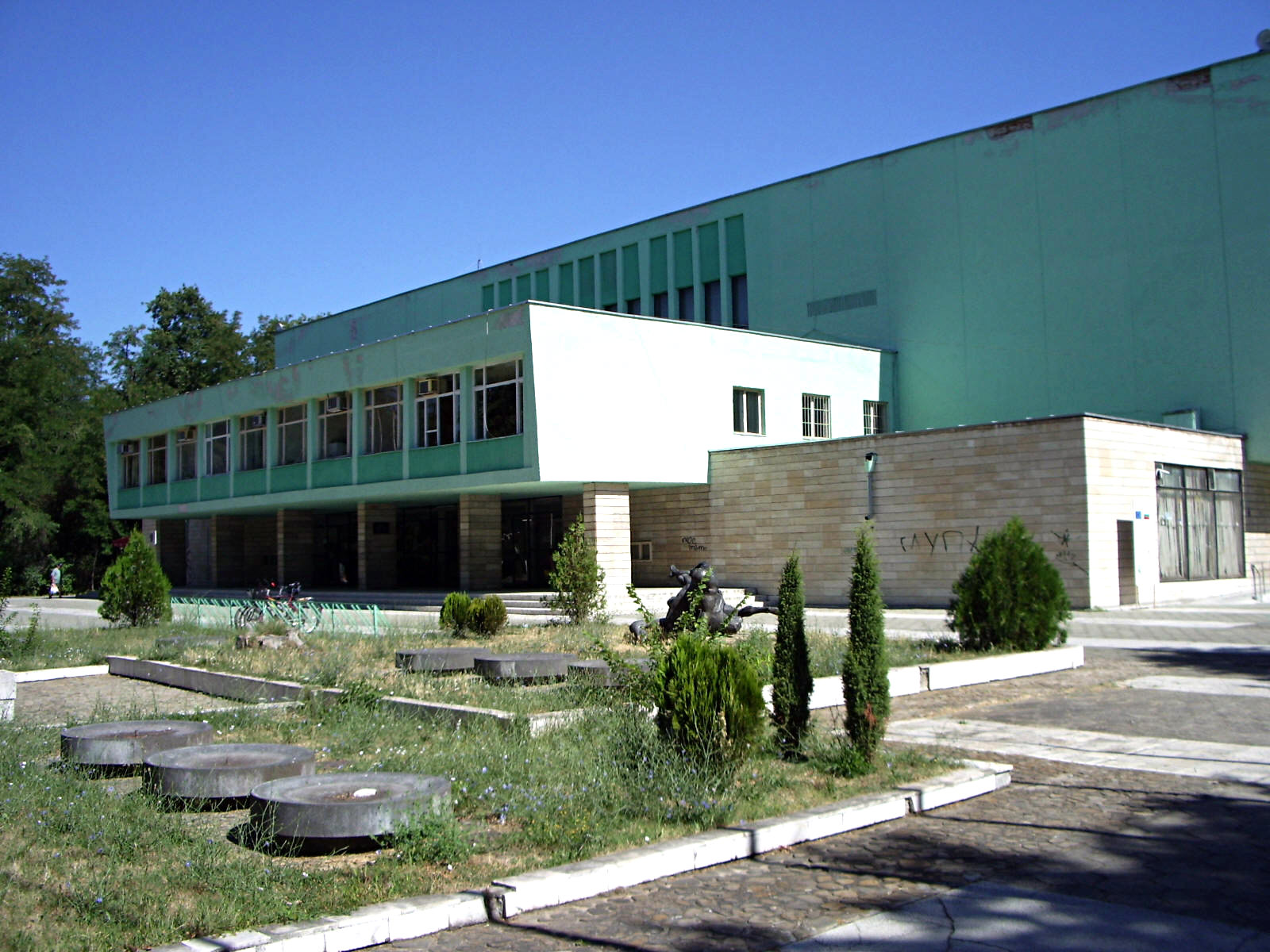 Sport hall "Diana", Yambol, Bulgaria